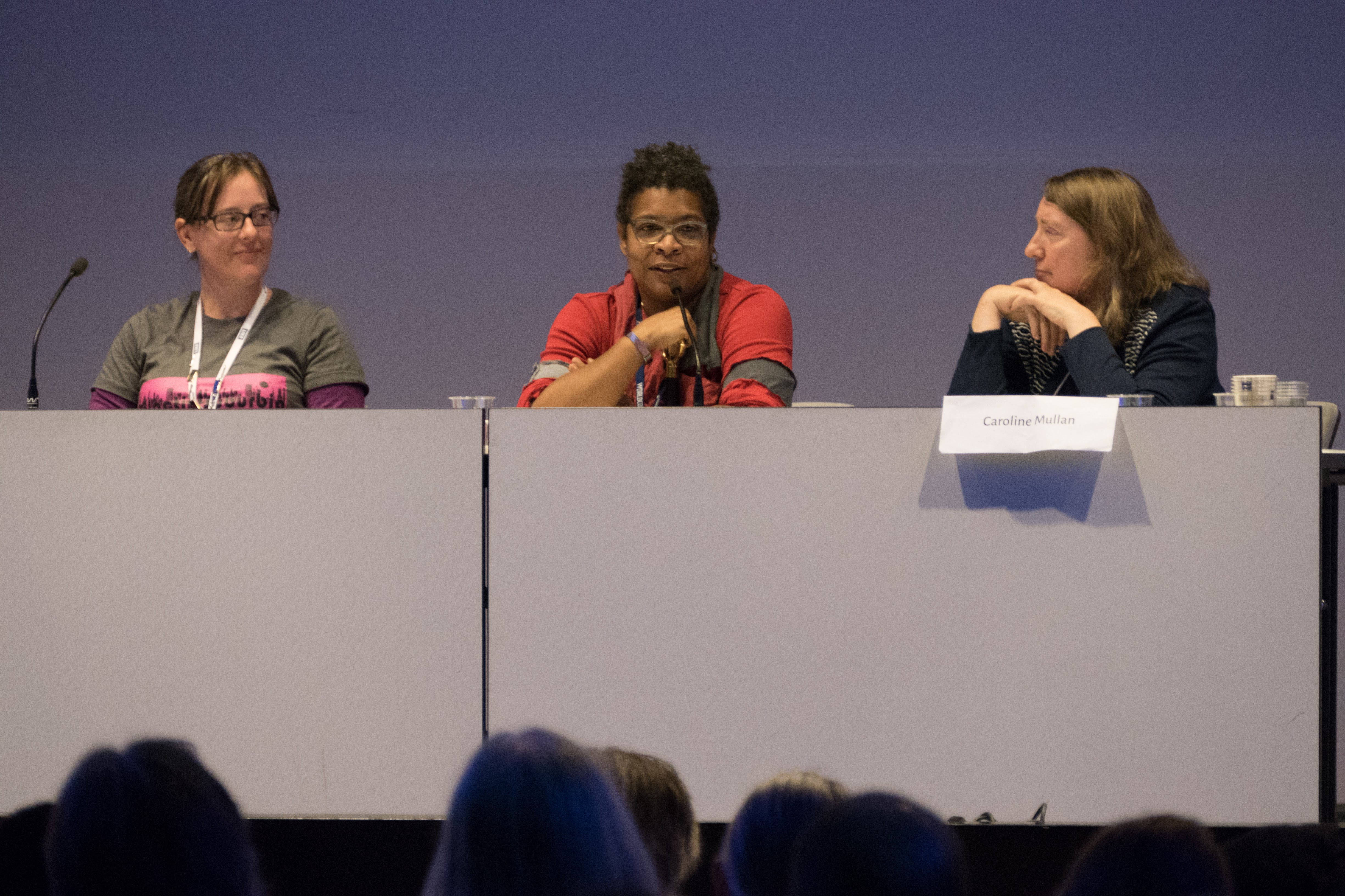 World Science Fiction Convention in Helsinki, 2017. Octavia Butler. Alexandra Pierce, Nalo Hopkinson and Caroline Mullan